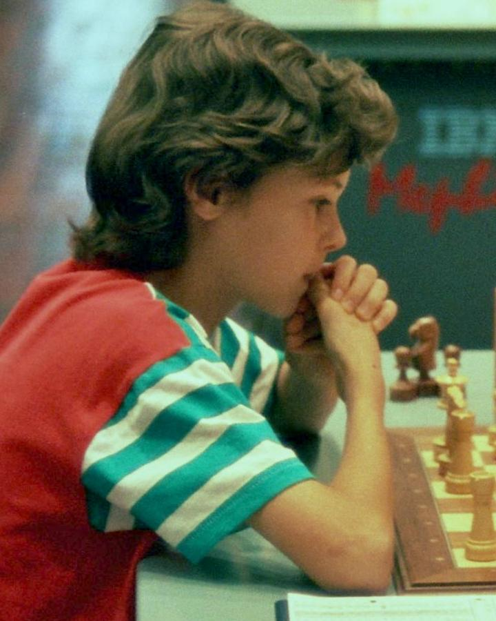 Peter Leko, World Youth Chess Championship (under 14) 1992 at Duisburg, Photographer Gerhard Hund.